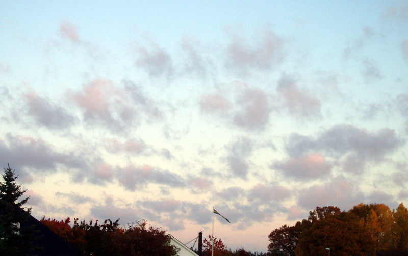 Stratus fractus clouds